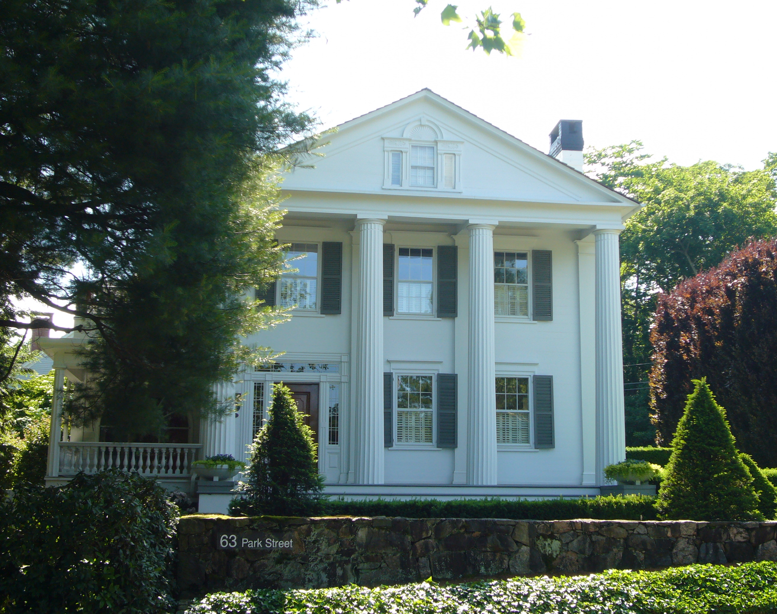 Maxwell E. Perkins House, New Canaan, CT, USA. Exterior.